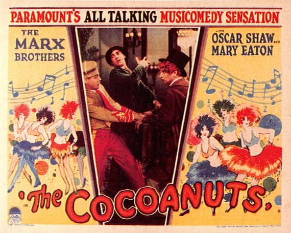 Announcement of the first Marx Brothers film The Cocoanuts